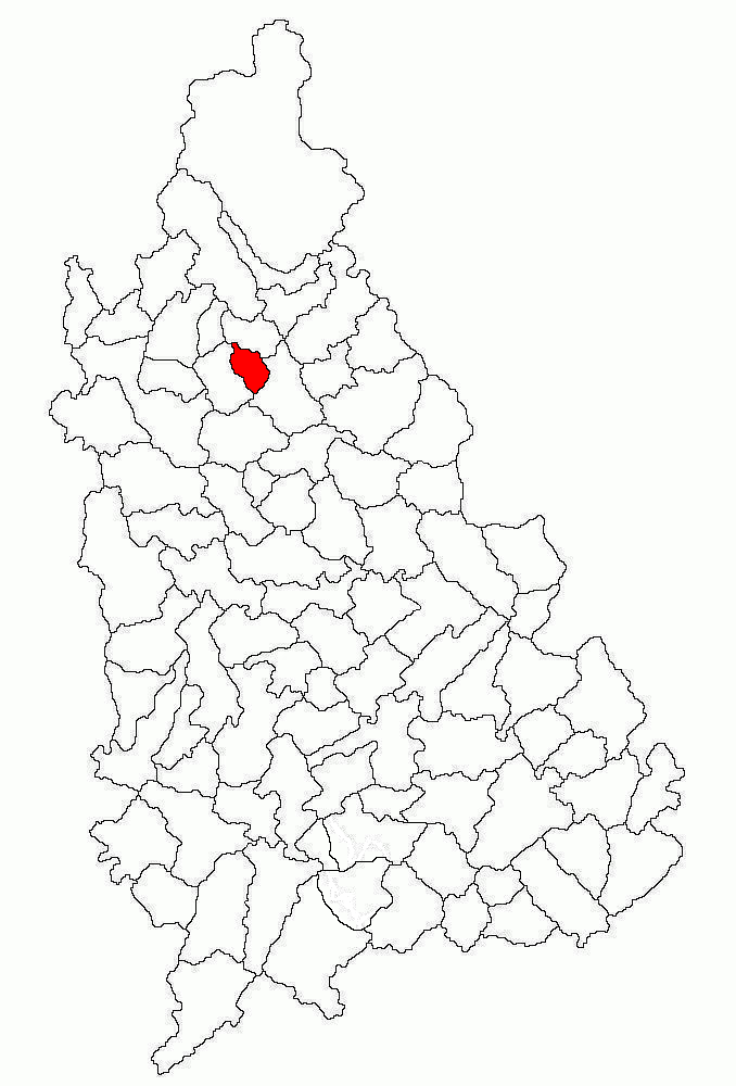 Locator map of Moțăieni Commune in Dâmbovița County, Romania